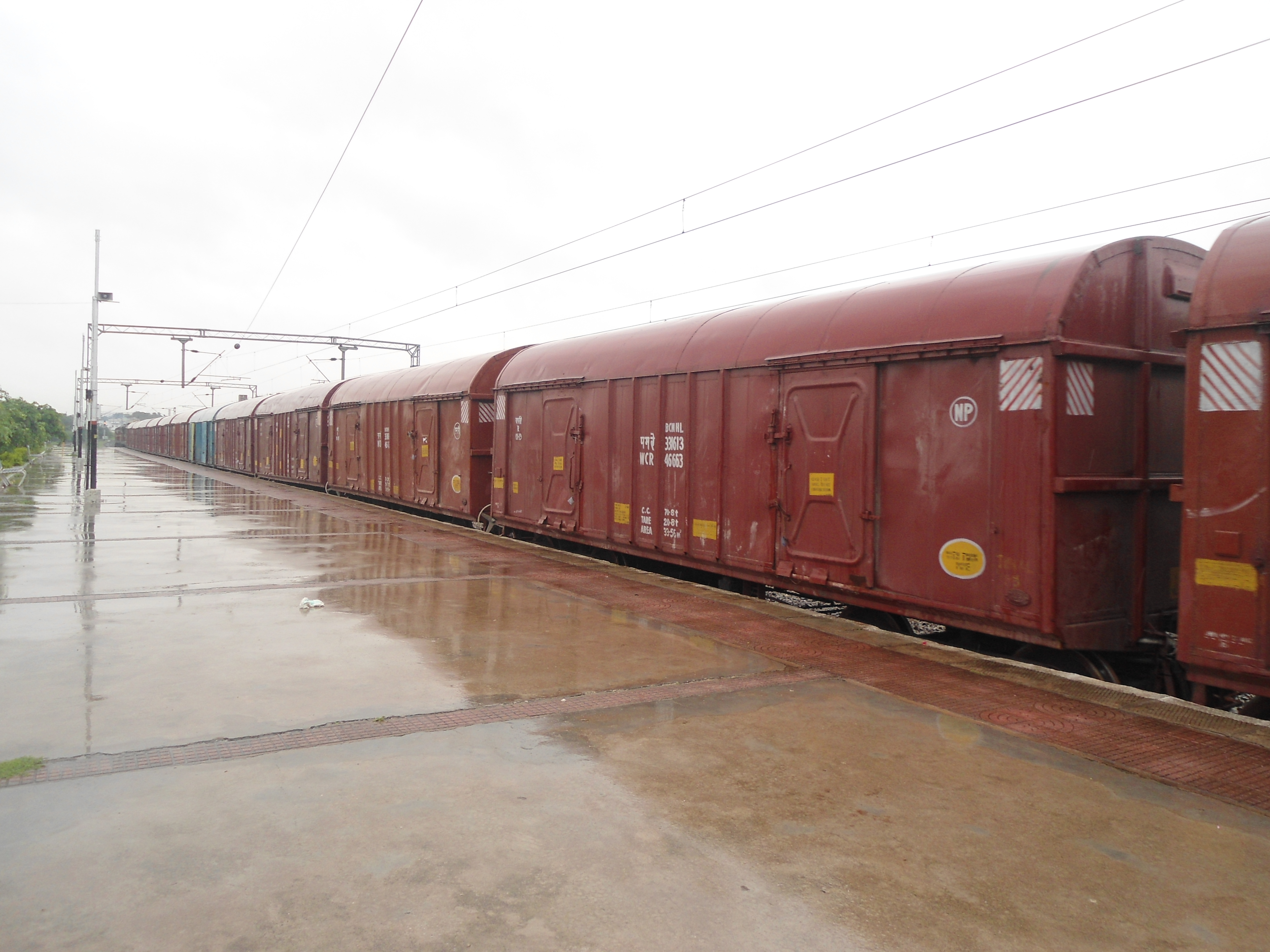 BCNA freight train at Malkajgiri railway station, Secunderabad